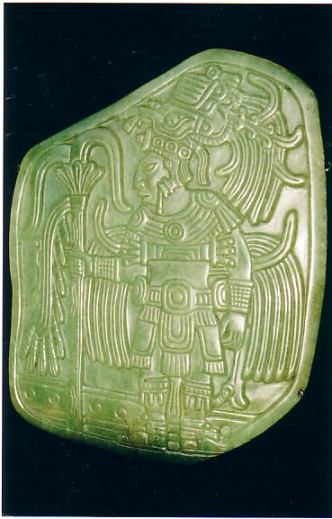 i took this photo myself in 2005 of a Jadeite Pectoral from the Mayan Classic period.